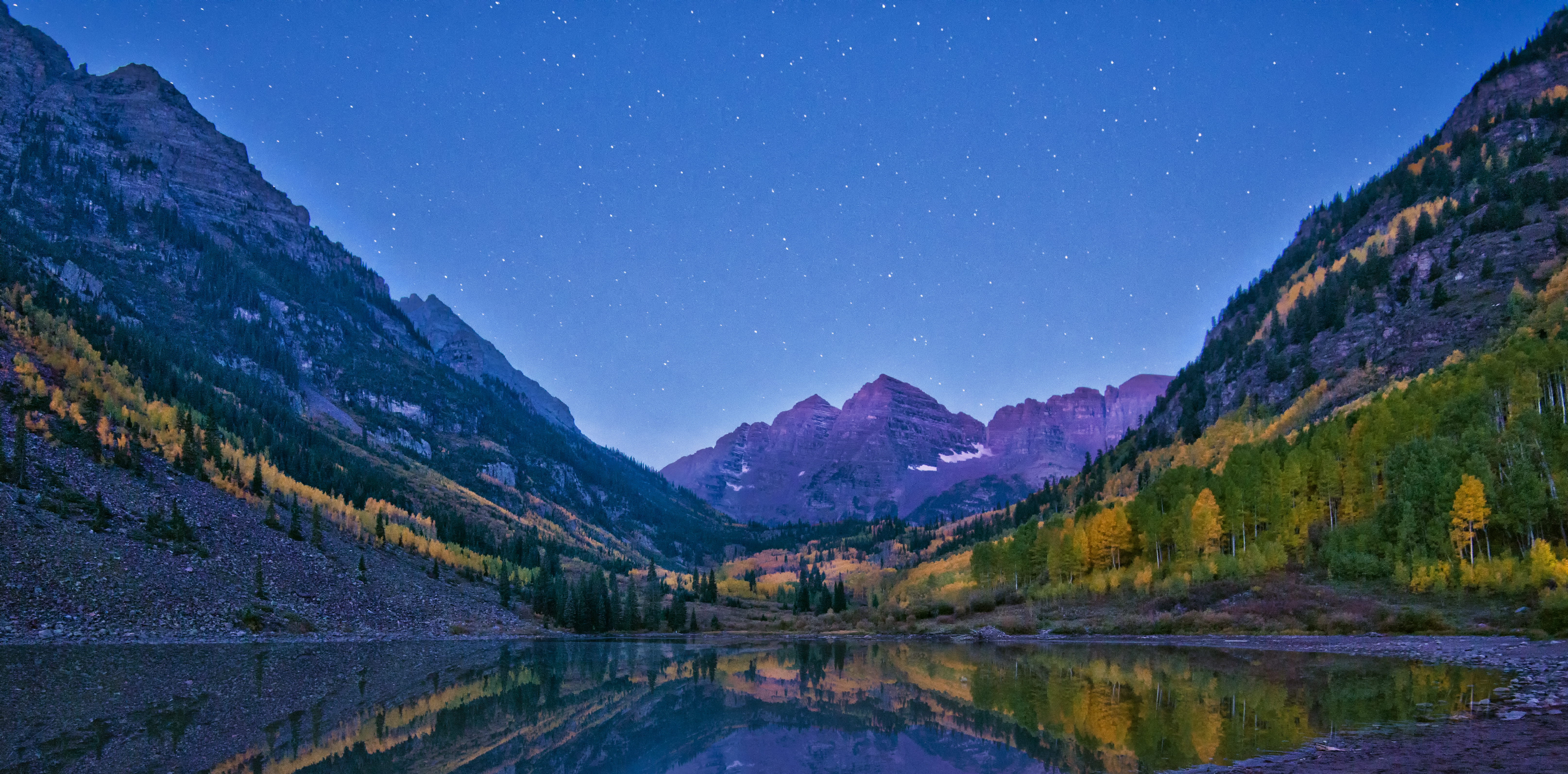 Maroon Bells, Maroon Lake, Colorado. Pre-dawn shot.